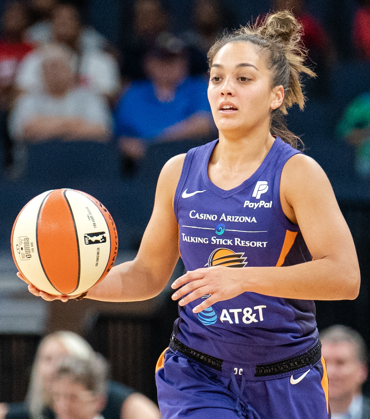 Phoenix Mercury player Leilani Mitchell during a game against the Minnesota Lynx